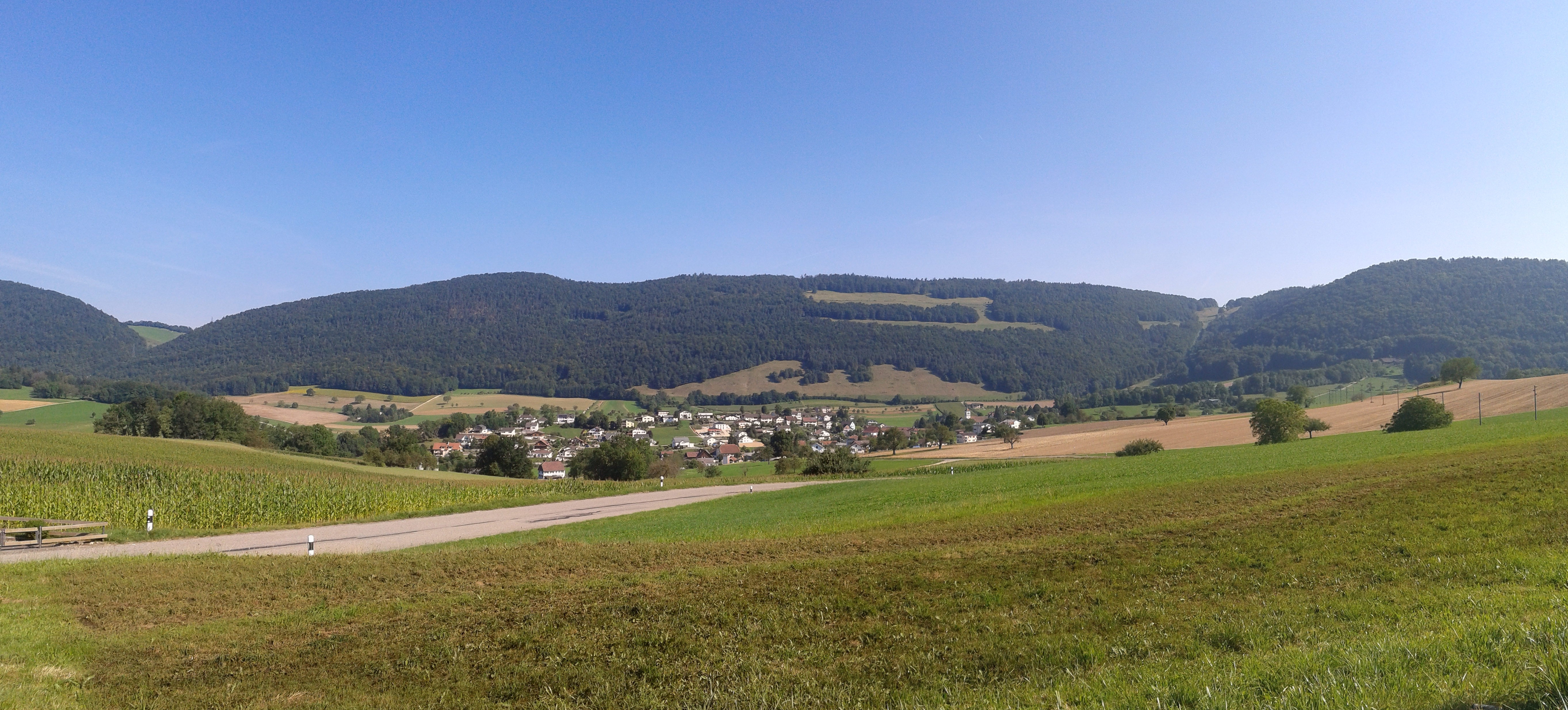 View of Mervelier